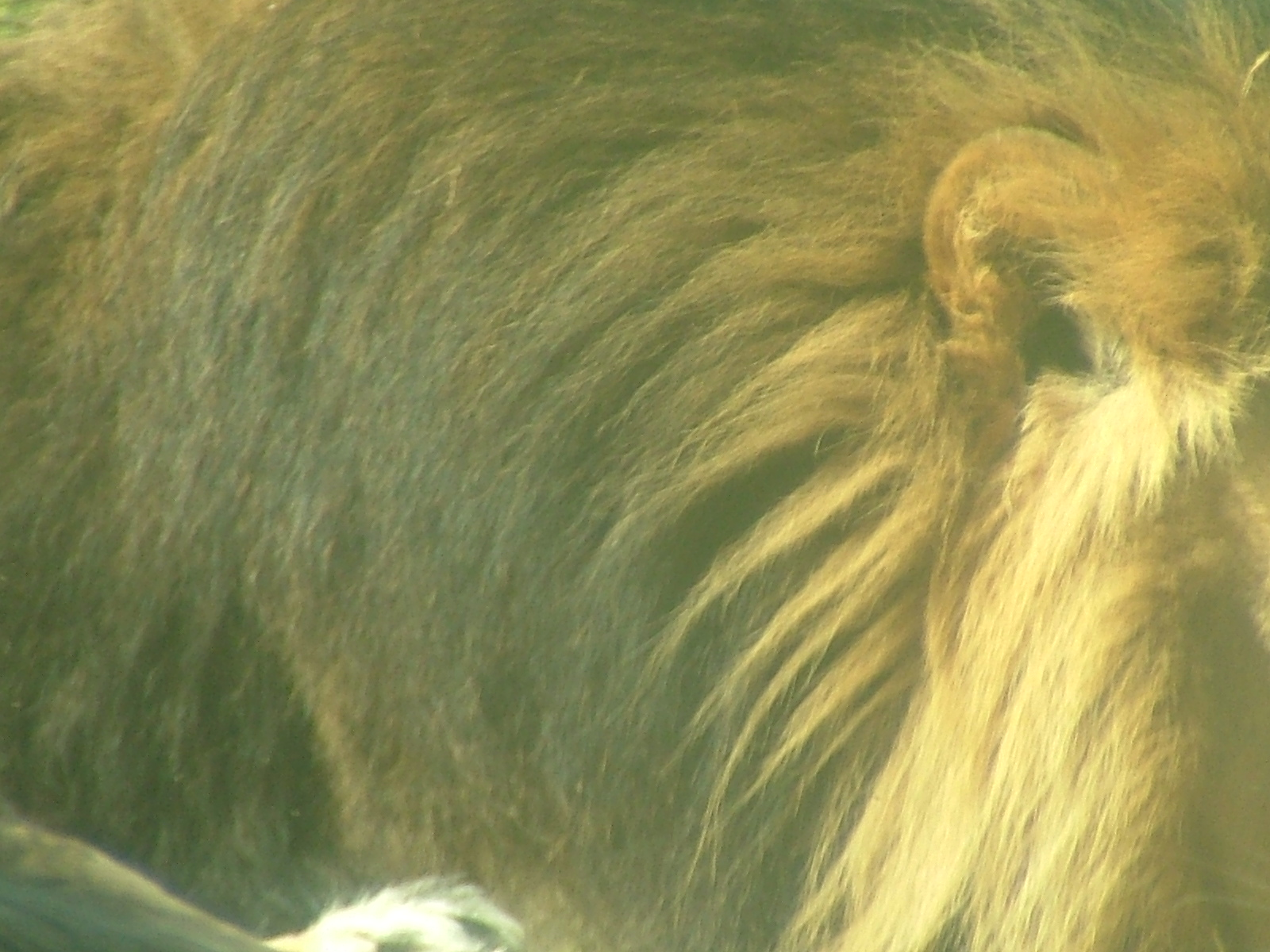 The mane of an Asiatic Lion (Panthera leo persica) at the Jerusalem Biblical Zoo.